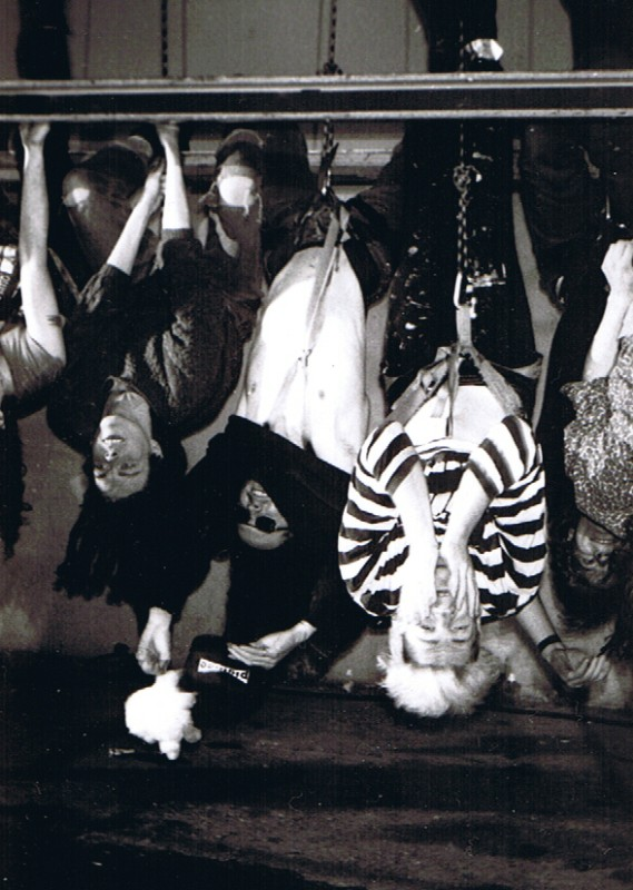 This was someone else's photo shoot, but somehow me & Rachel ended up here in Palo Alto, CA, to see them. They all hung upside down on a scaffold. Chris [Connelly], [Nivek] Ogre (w/Pukey), Martin Atkins